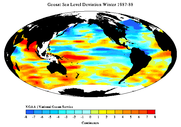 Geosat Sea Level Deviation Winter 1987-88